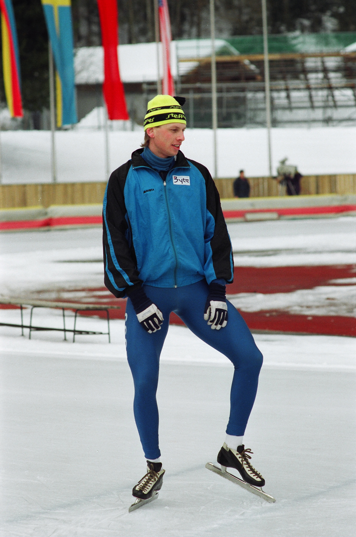 Nikolaj Goeljajev, former russian speedskater